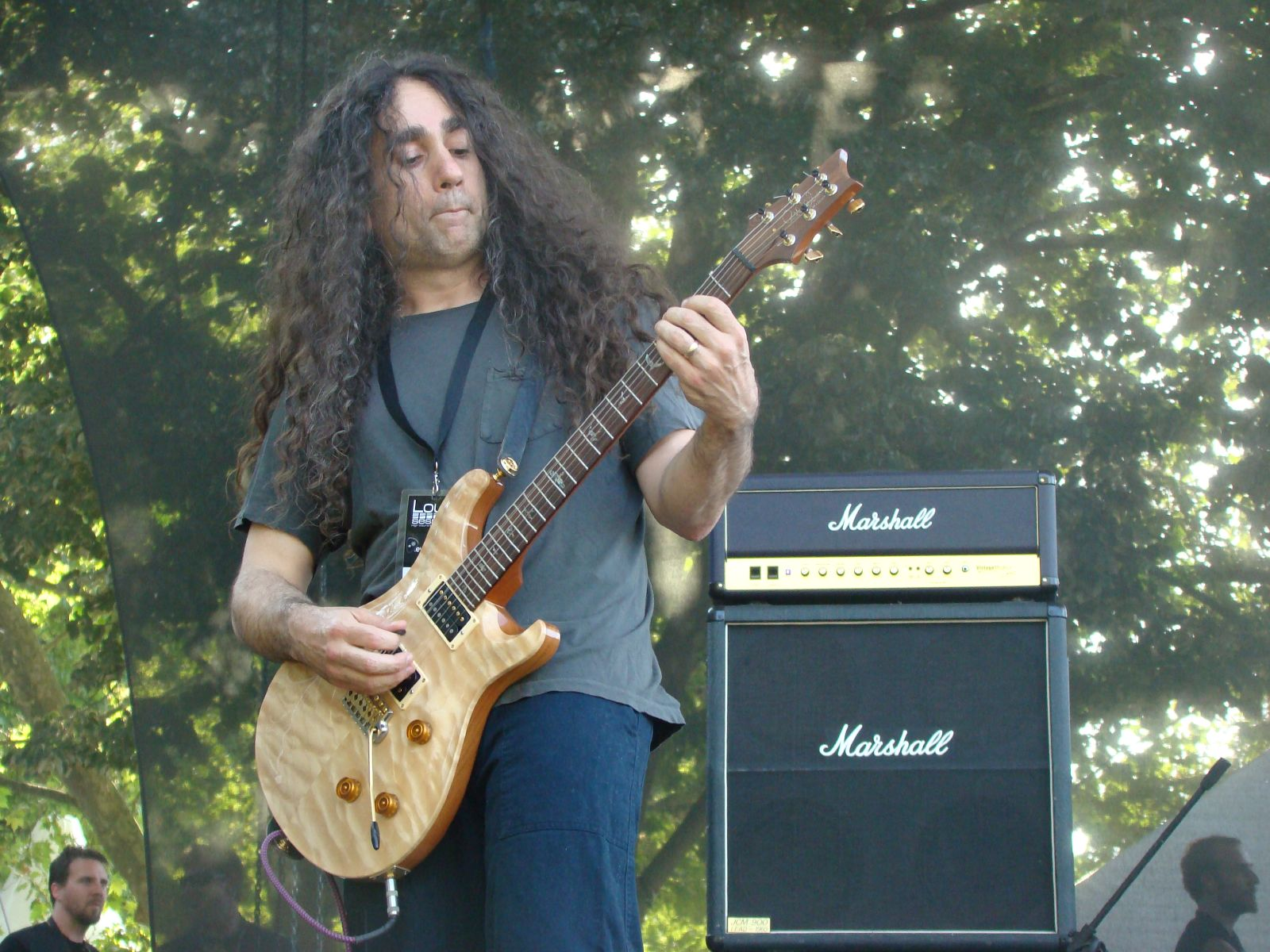 Jim Matheos from Fates Warning